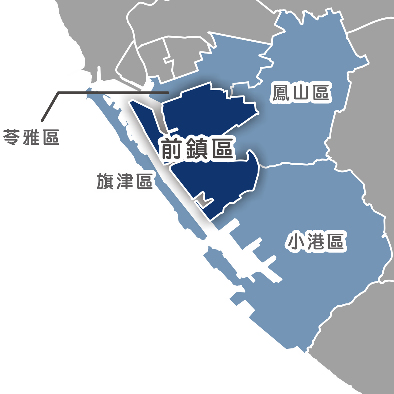 Cianjhen District